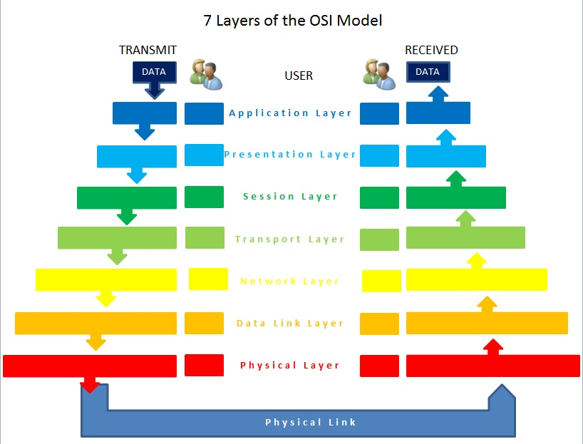 This is an illustration of the Open Systems Interconnection Model